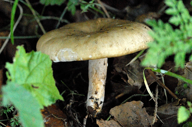 Lactarius spec. from Commanster, Belgium. The determination of the species shown in this picture has been verified.